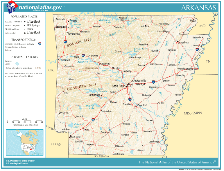 Reference Map for the U.S. state of Arkansas.